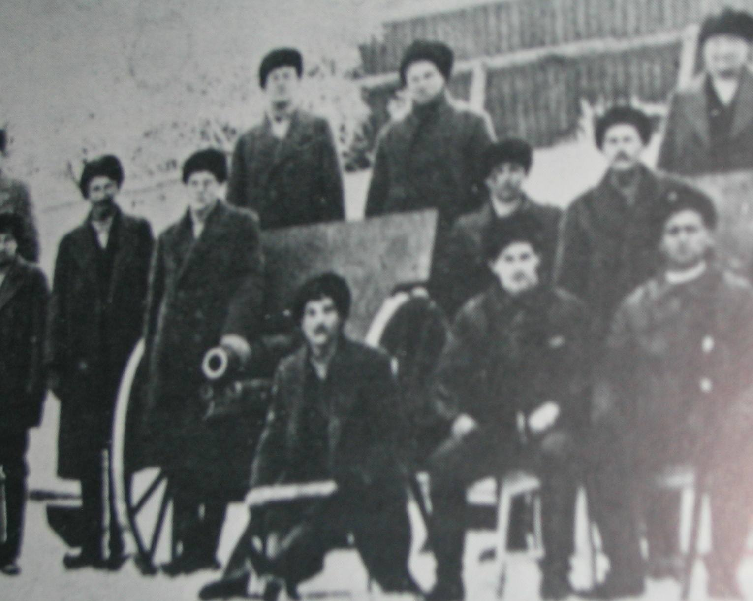 Finnish civil war red gunners.